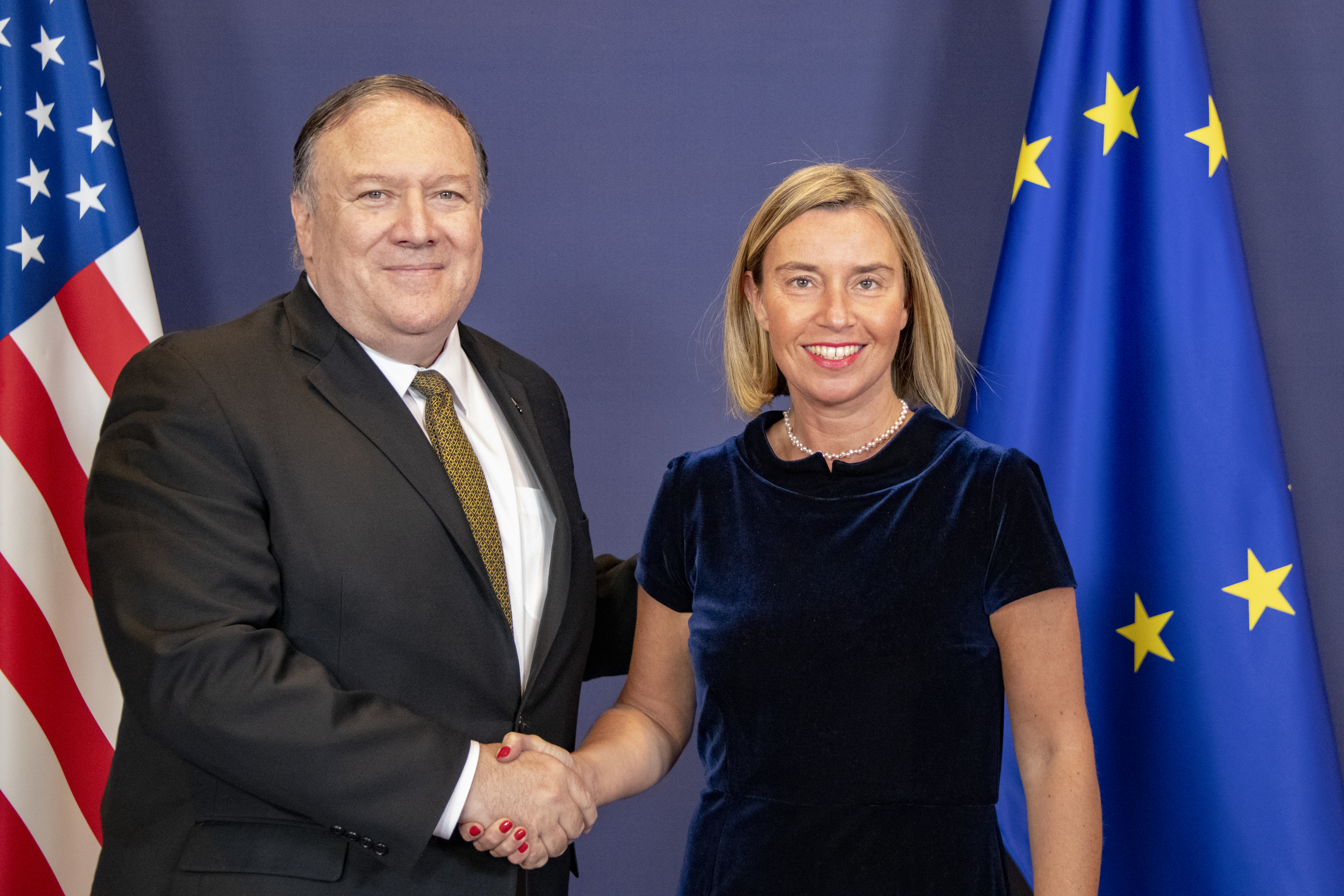 U.S. Secretary of State Michael R. Pompeo meets with European Union High Representative/ Vice President Federica Mogherini in Brussels, Belgium on May 13, 2019. [State Department photo by Ron Przysucha/Public Domain]